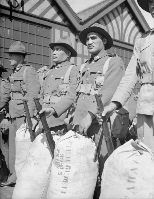 Dominion and Empire Forces in the United Kingdom, 1939-1945 Men of the 28th (Maori) Battalion, New Zealand Expeditionary Force, after disembarking at Gourock in Scotland, 17 June 1940.